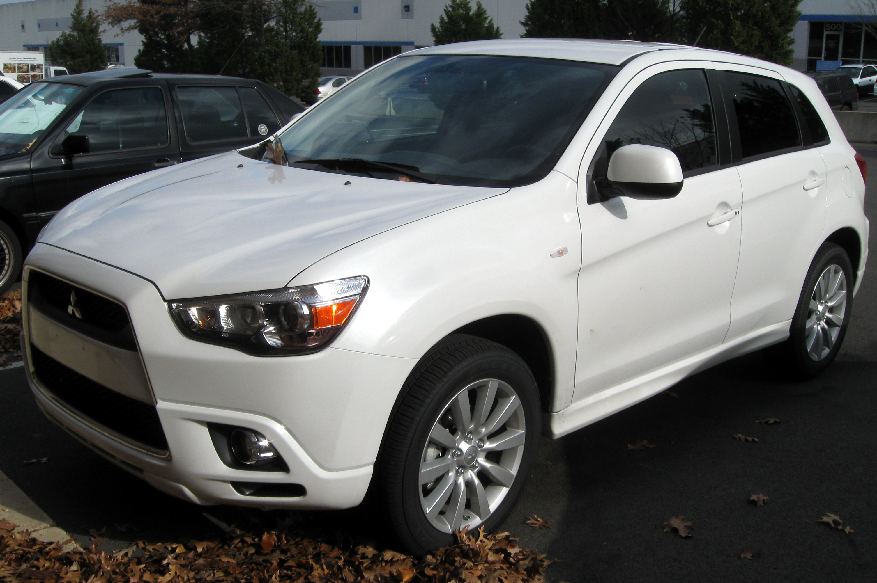 2011 Mitsubishi Outlander Sport photographed in Chantilly, Virginia, USA.